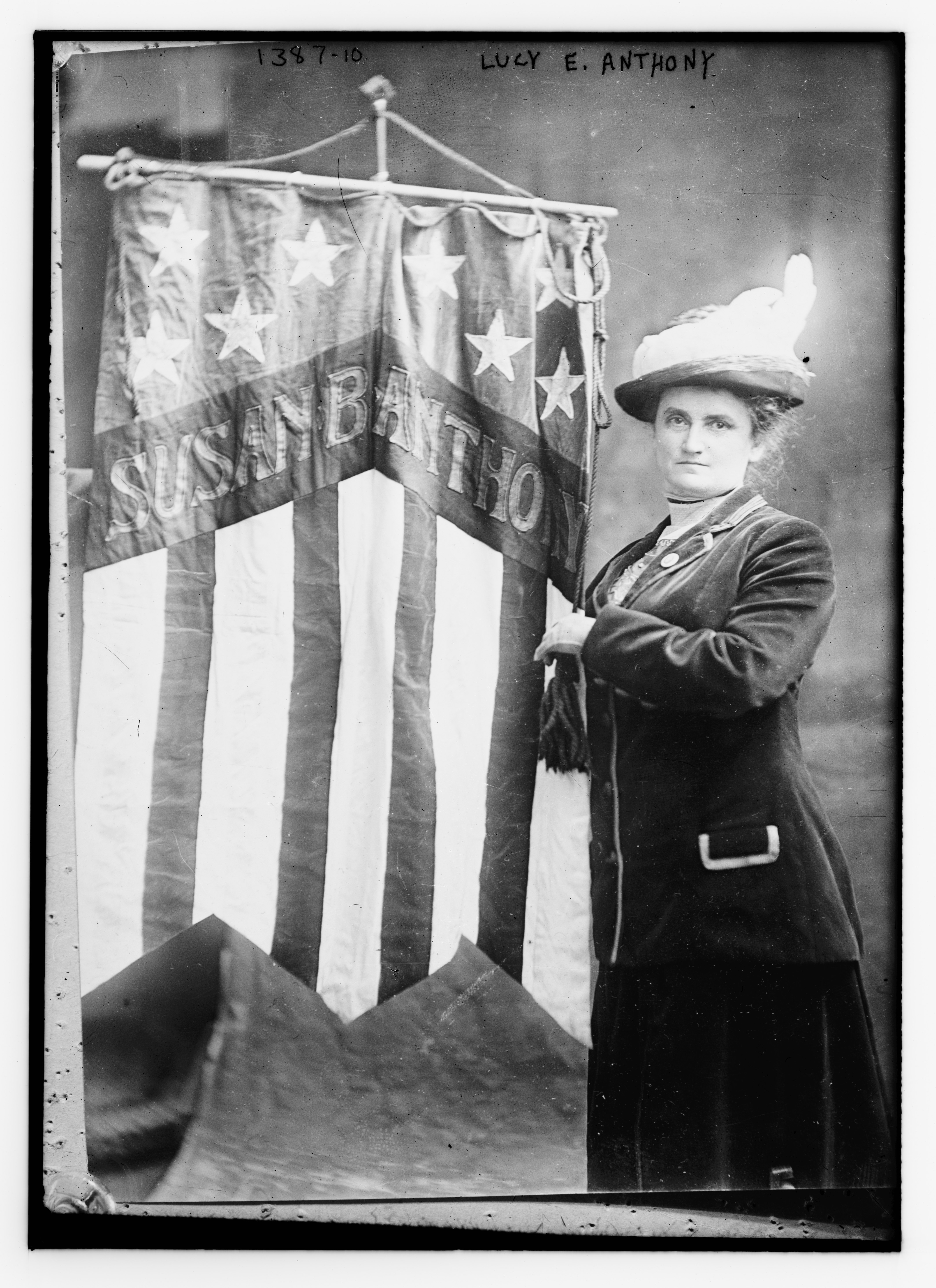 Title: Lucy E. Anthony Abstract/medium: 1 negative : glass ; 5 x 7 in. or smaller.